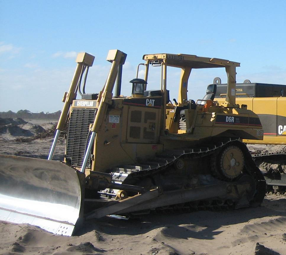 Image of CAT D6R bulldozer.